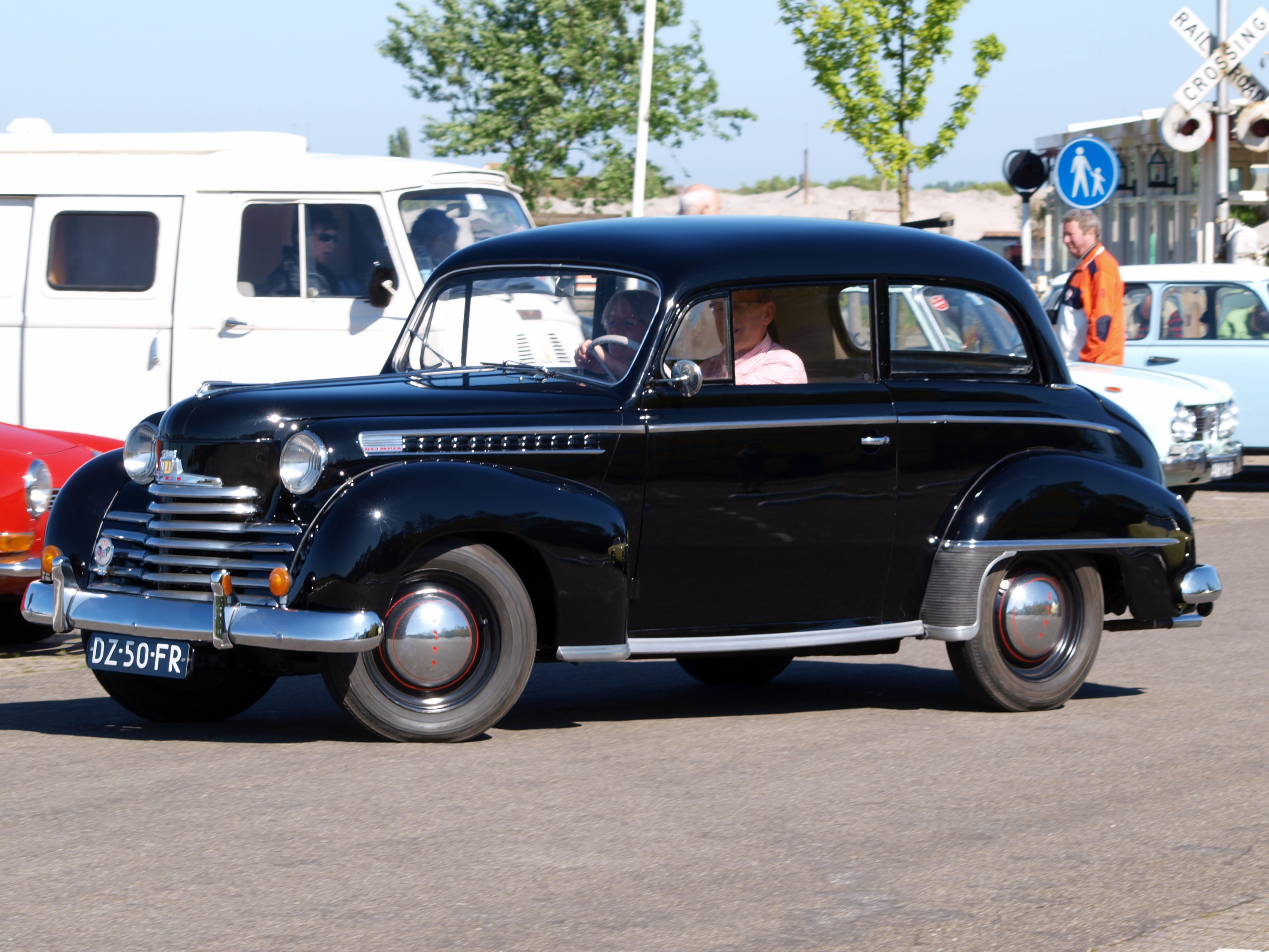 Photographed at Valkenburg, The Netherlands